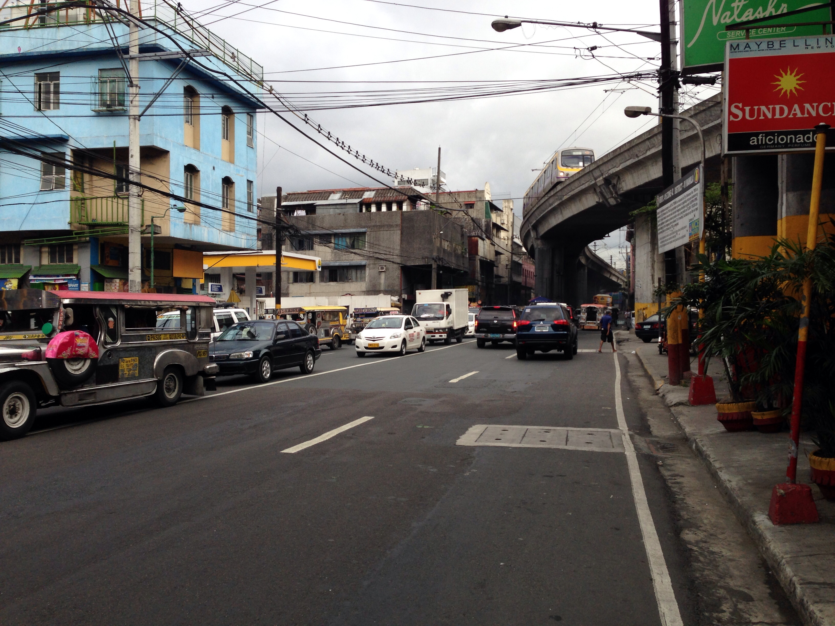 Legarda Street (formerly Calle Alix) Legarda Street Sampaloc, Manila